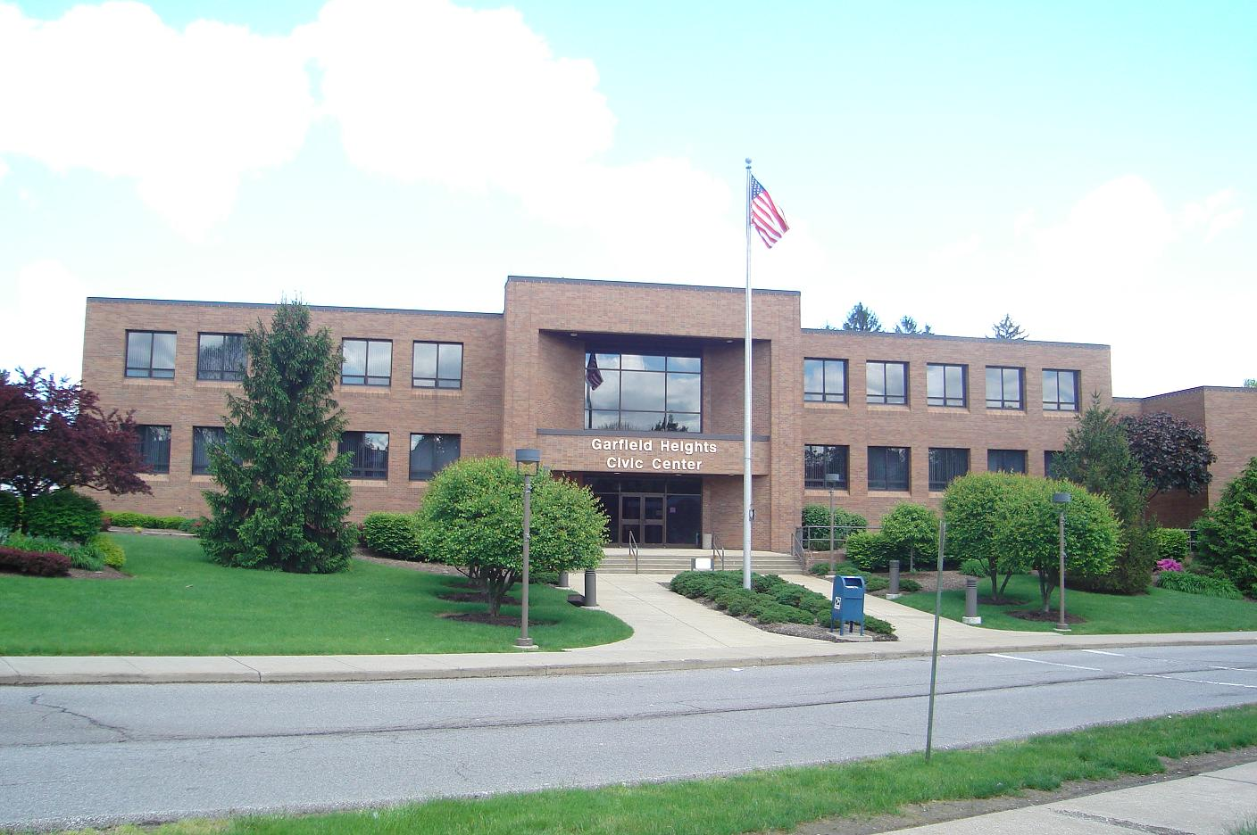 The Garfield Heights city hall and Civic Center, seen in May 2006. Photo taken by Andrew DeFratis, 20 May 2006. - A.J. 20:30, 26 May 2006 (UTC)